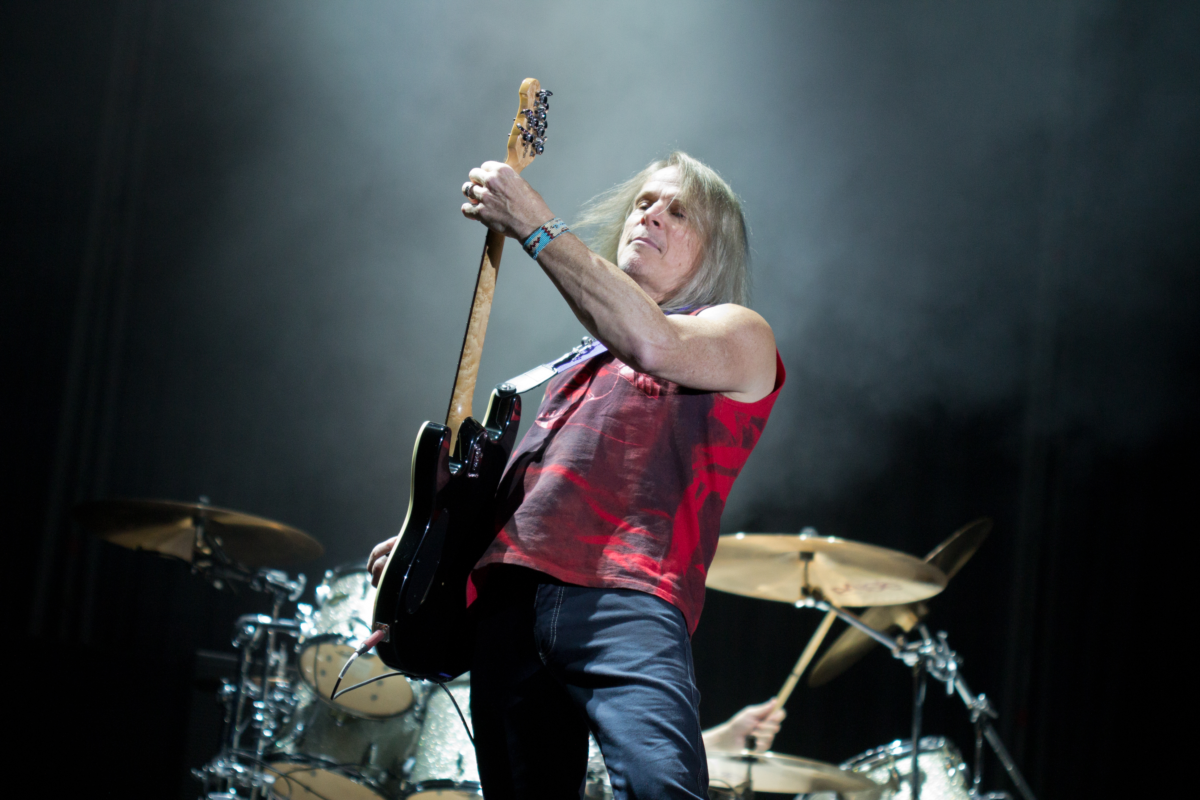 Steve Morse (Deep Purple) performing at Músicos en la naturaleza 2013 in Hoyos del Espino, Ávila, Spain.